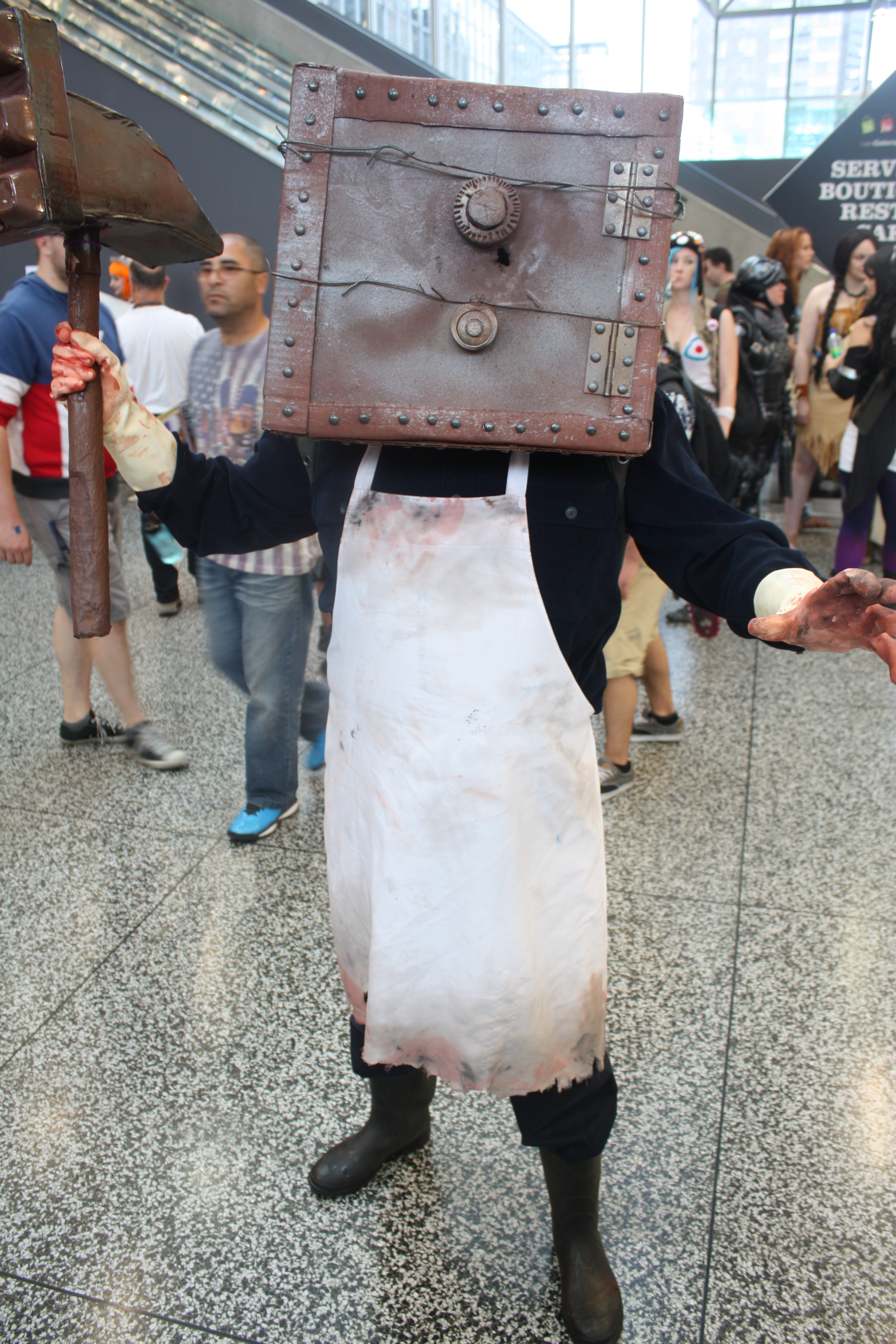 Cosplay one day two of Montreal Comiccon 2015.